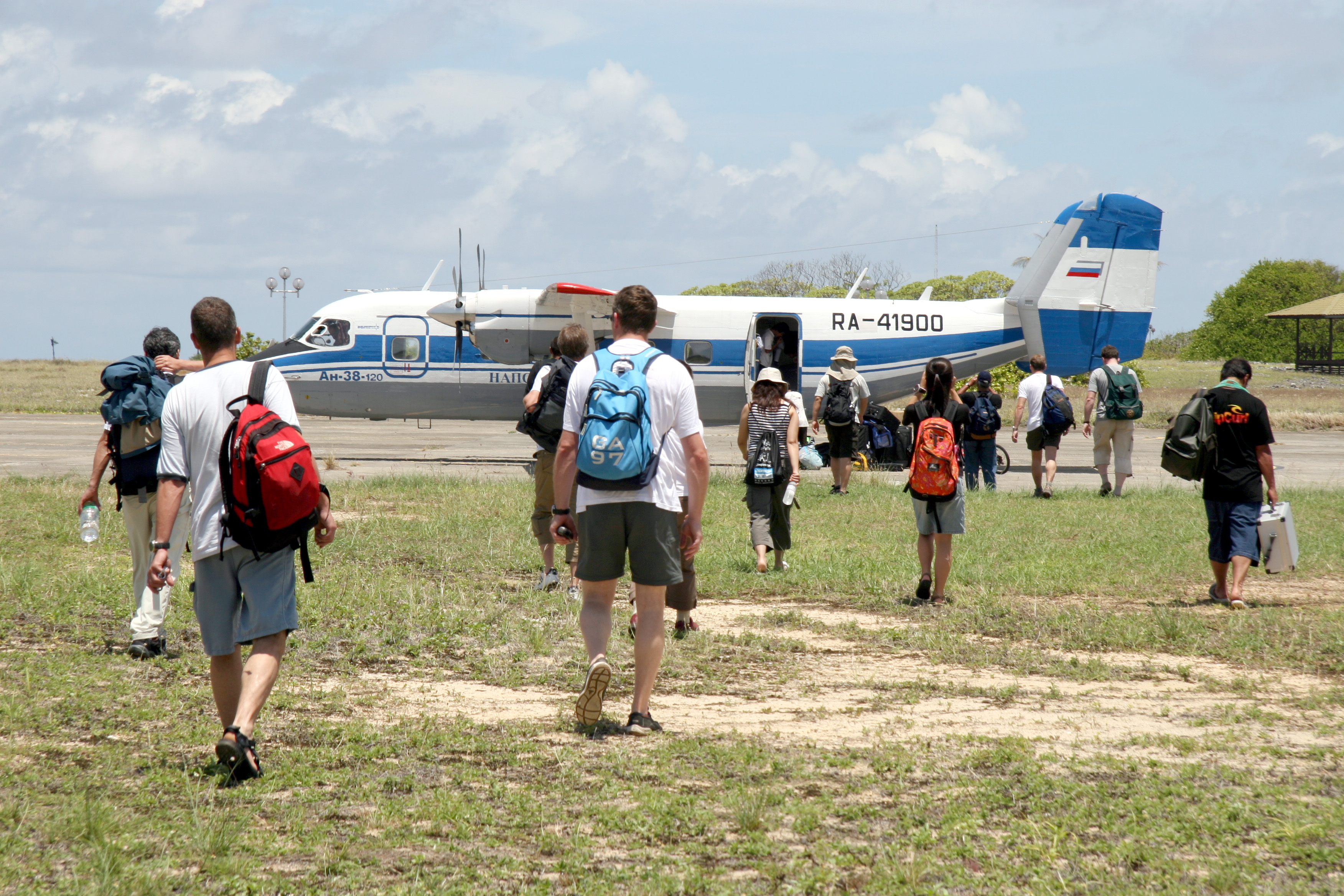 Airport in Swallow Reef (Pulau Layang-Layang) in Spratly Islands, South China Sea